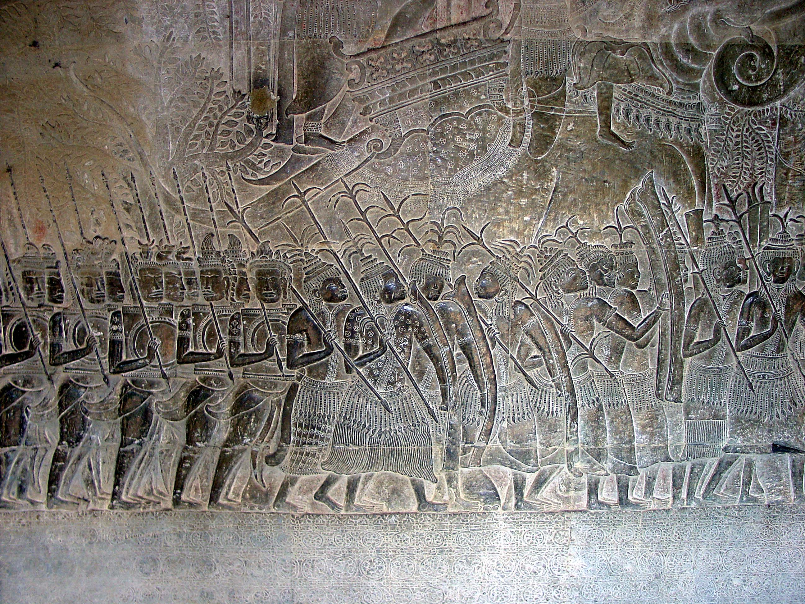 These soldiers at the head of the procession are Siamese (Thais, Syam kuk). Their hair is oddly braided. They wear wide skirts, and carry spiked spears and long shields. Their disorderly march indicates that these are irregular troops, probably used as skirmishers in a screening force.